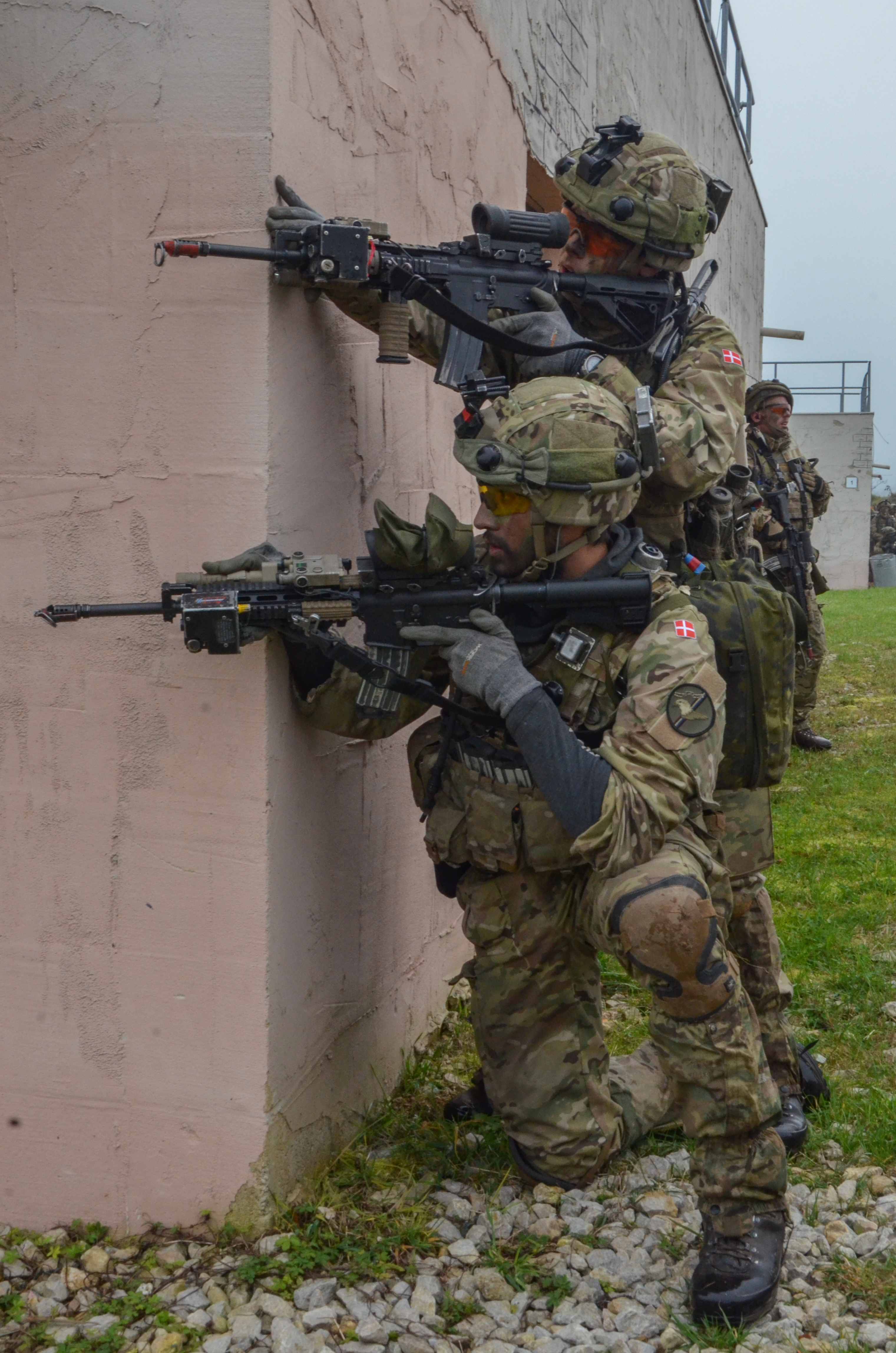 Royal Danish soldiers of Alpha Company, 3rd Reconnaissance Battalion, Guard Hussar Regiment search for threats while conducting cordon and search operations during exercise Combined Resolve III at the Joint Multinational Readiness Center in Hohenfels, Germany, Nov. 3, 2014. Combined Resolve III is a multinational exercise, which includes more than 4,000 participants from NATO and partner nations, and is designed to provide a complex training scenario that focuses on multinational unified land operations and reinforces the U.S. commitment to NATO and Europe. (U.S. Army photo by Pfc. Shardesia Washington/Released)